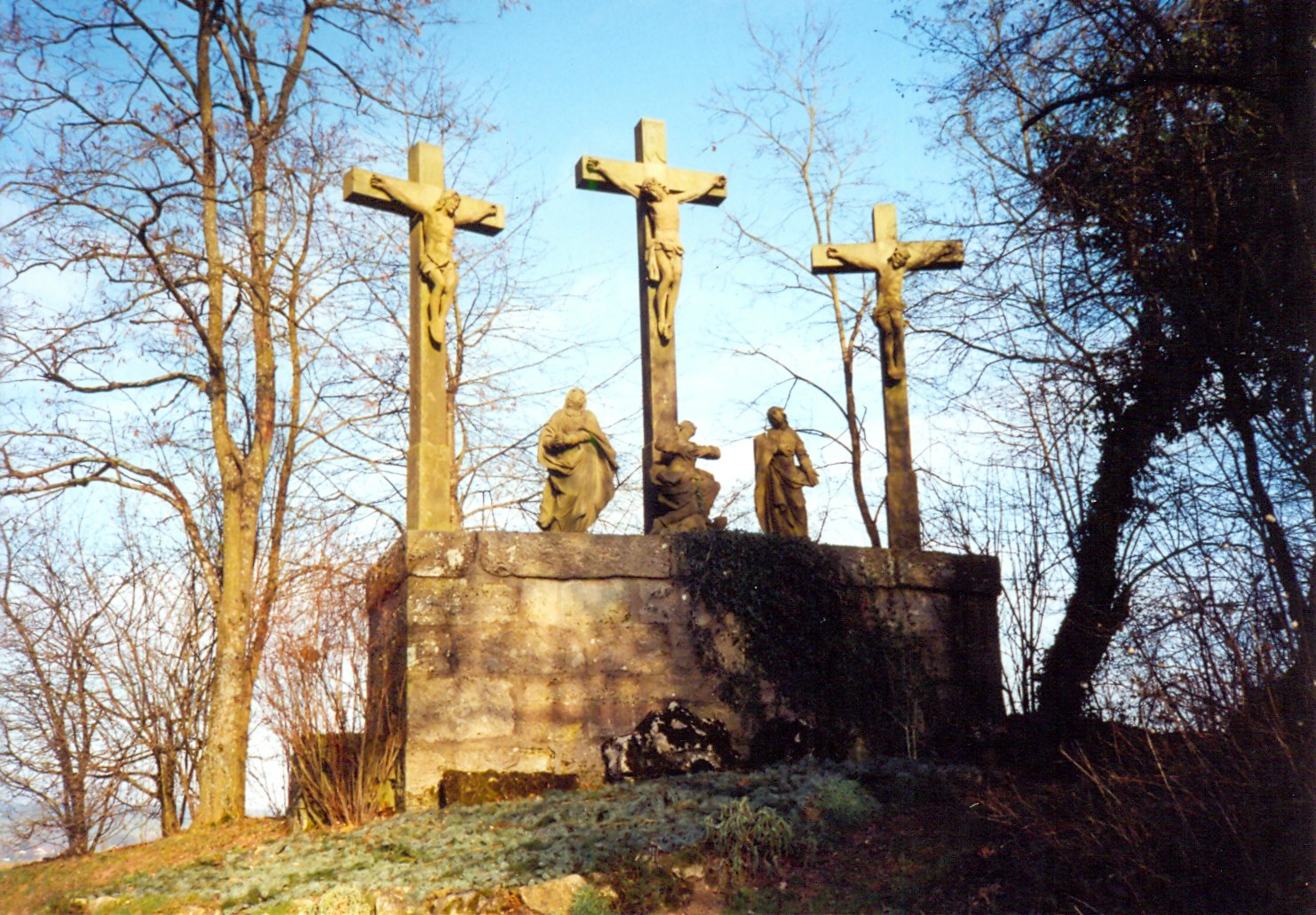 12th Station of the Way of the Cross in Poppenroth (Bavaria, Germany)